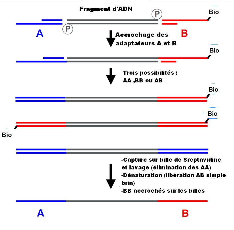 Fragment preparation for sequencing